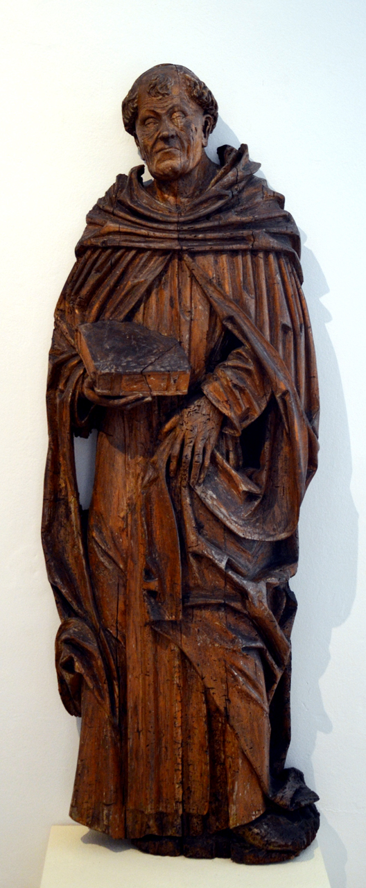 Anton Pilgram, Saint, around 1510, Moravian Gallery in Brno